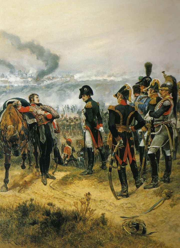 Ratisbon - Incident of the French Camp